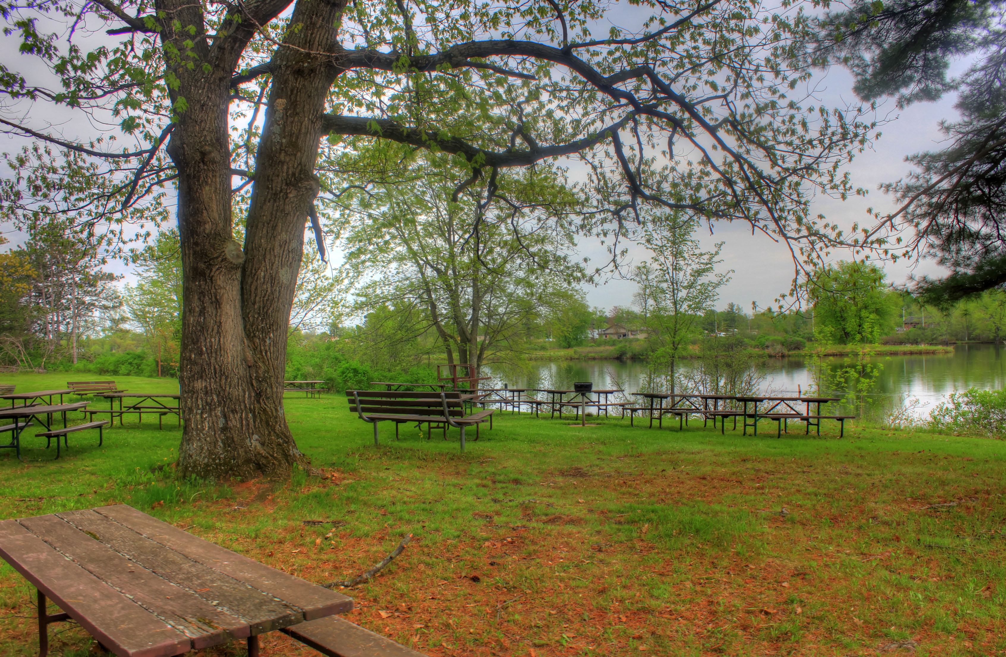 Council Grounds State Park is a 509 acre state park that evolved from a roadside park to a state park. The name comes from the seasonal gatherings that came fro Free public domain stock photo of the picnic area by the lake at Council Grounds